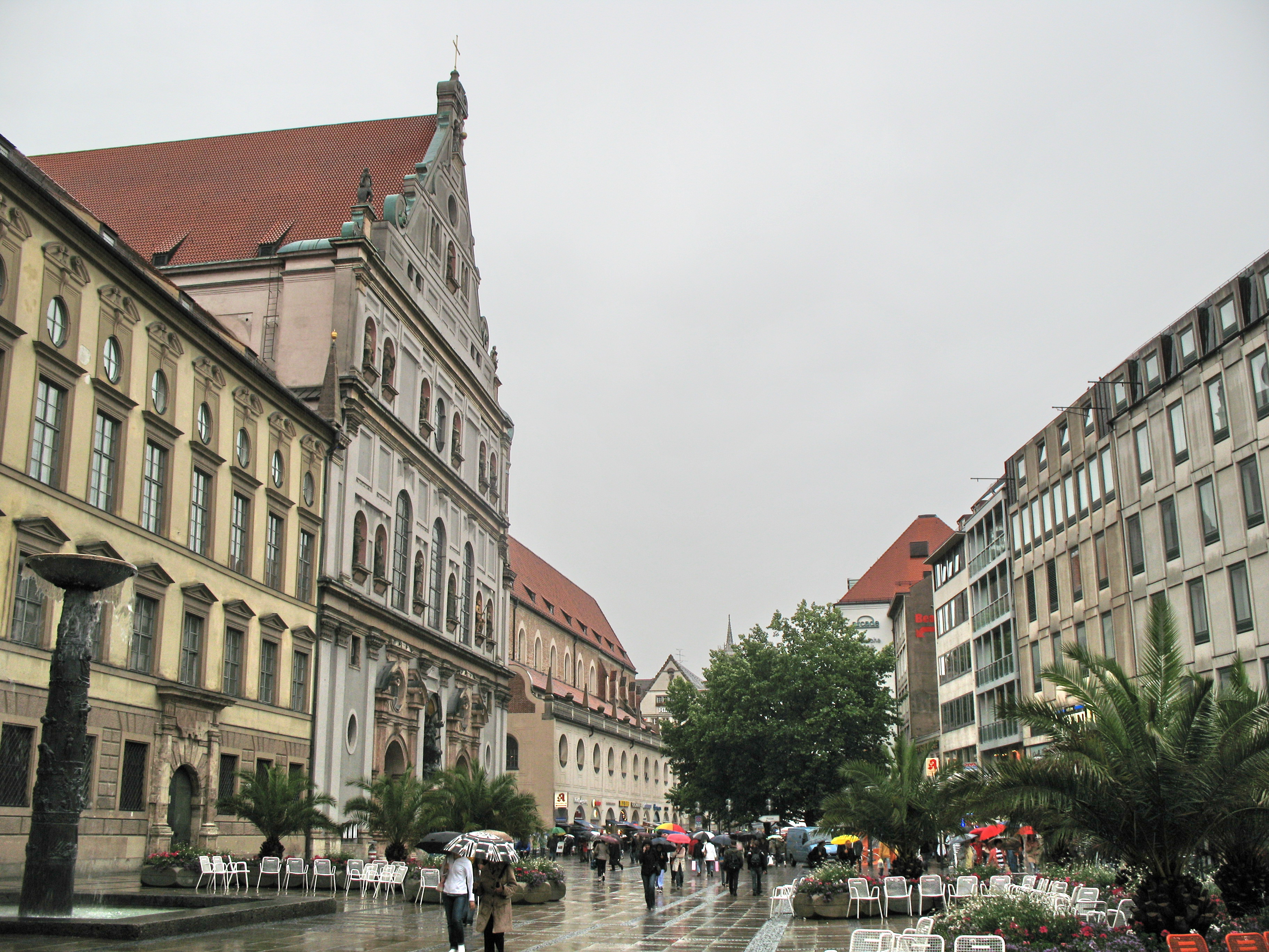 Michael's Church on New House Street, Munich, Germany